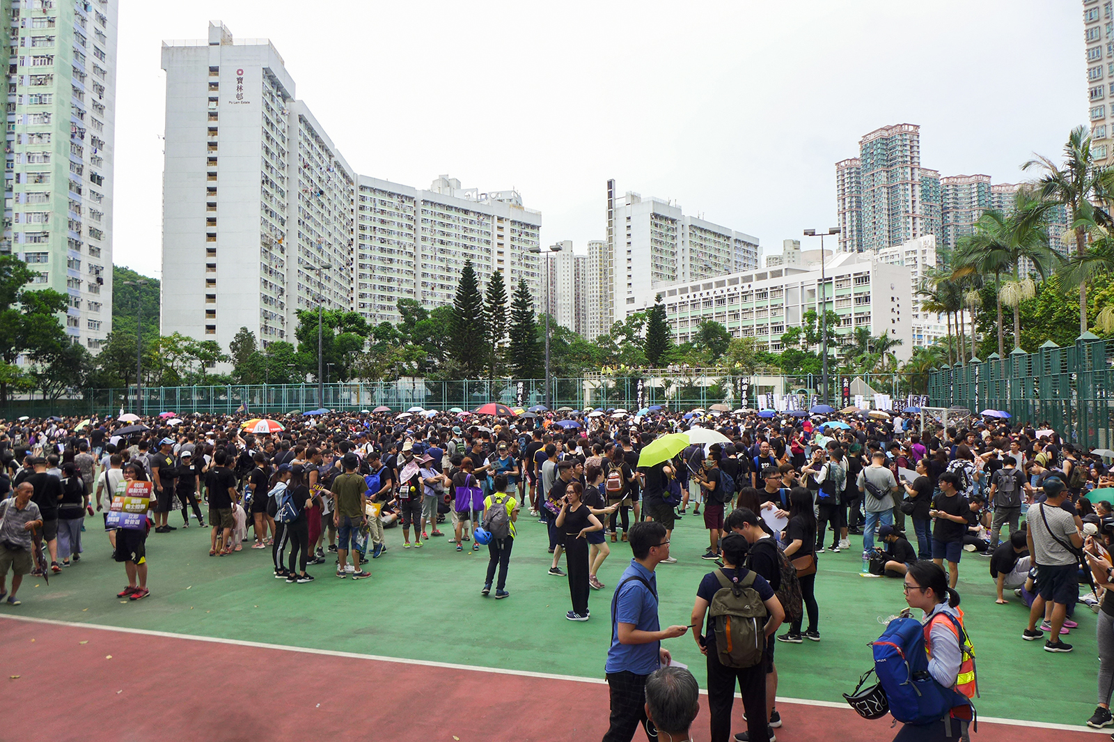 Po Tsui Park people